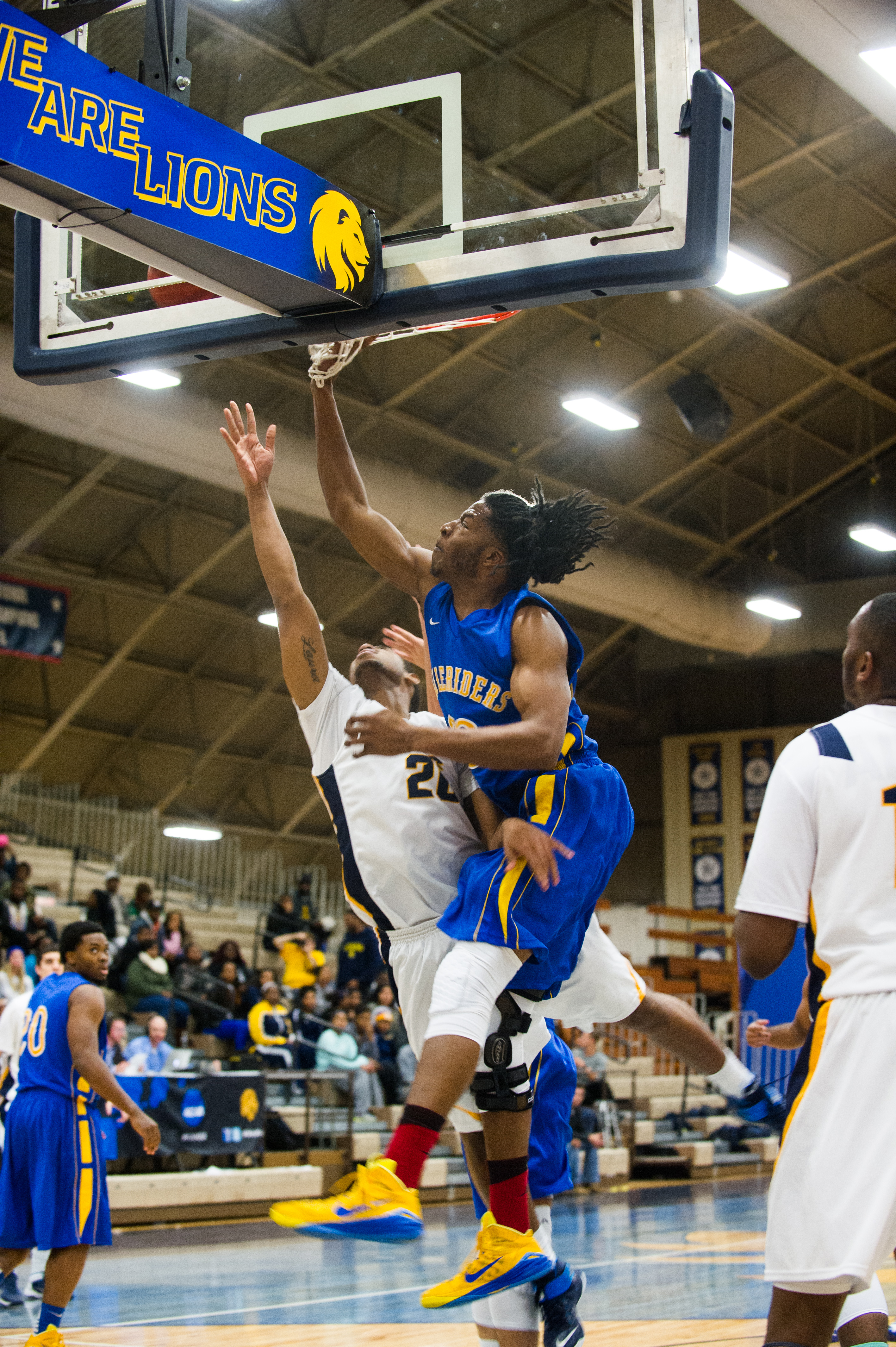 Athletics-MBSK vs SAU-6964.jpg 2013–14 Texas A&M–Commerce Lions men's basketball team